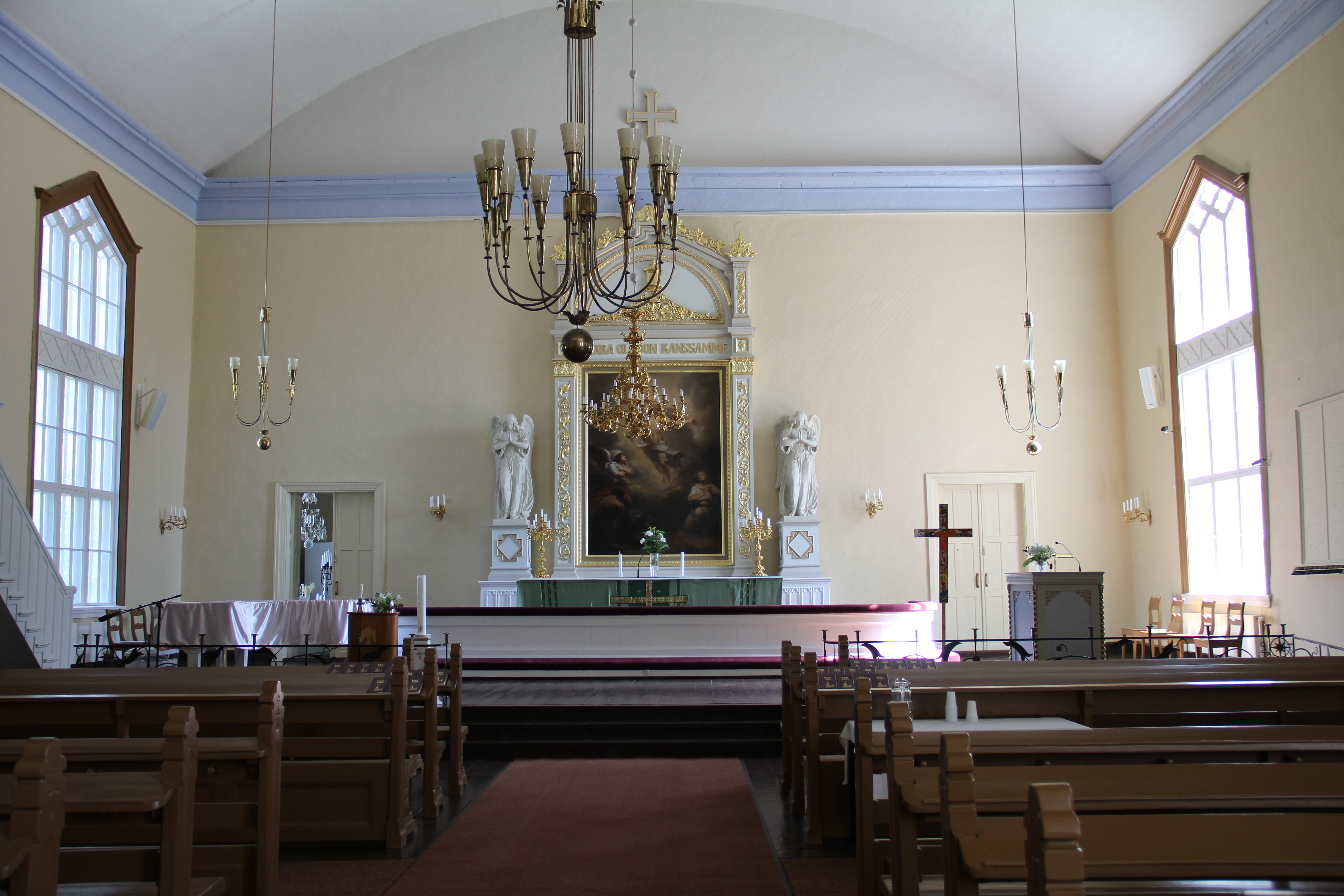 Urjala church, Urjala, Finland. Originally designed by Martti Tolpo, modifications in 1869 designed by architect Carl Albert Edelfelt. Completed in 1806. - Chancel and altar.